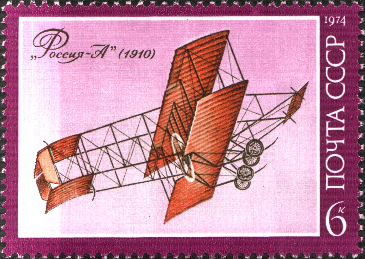 USSR stamp